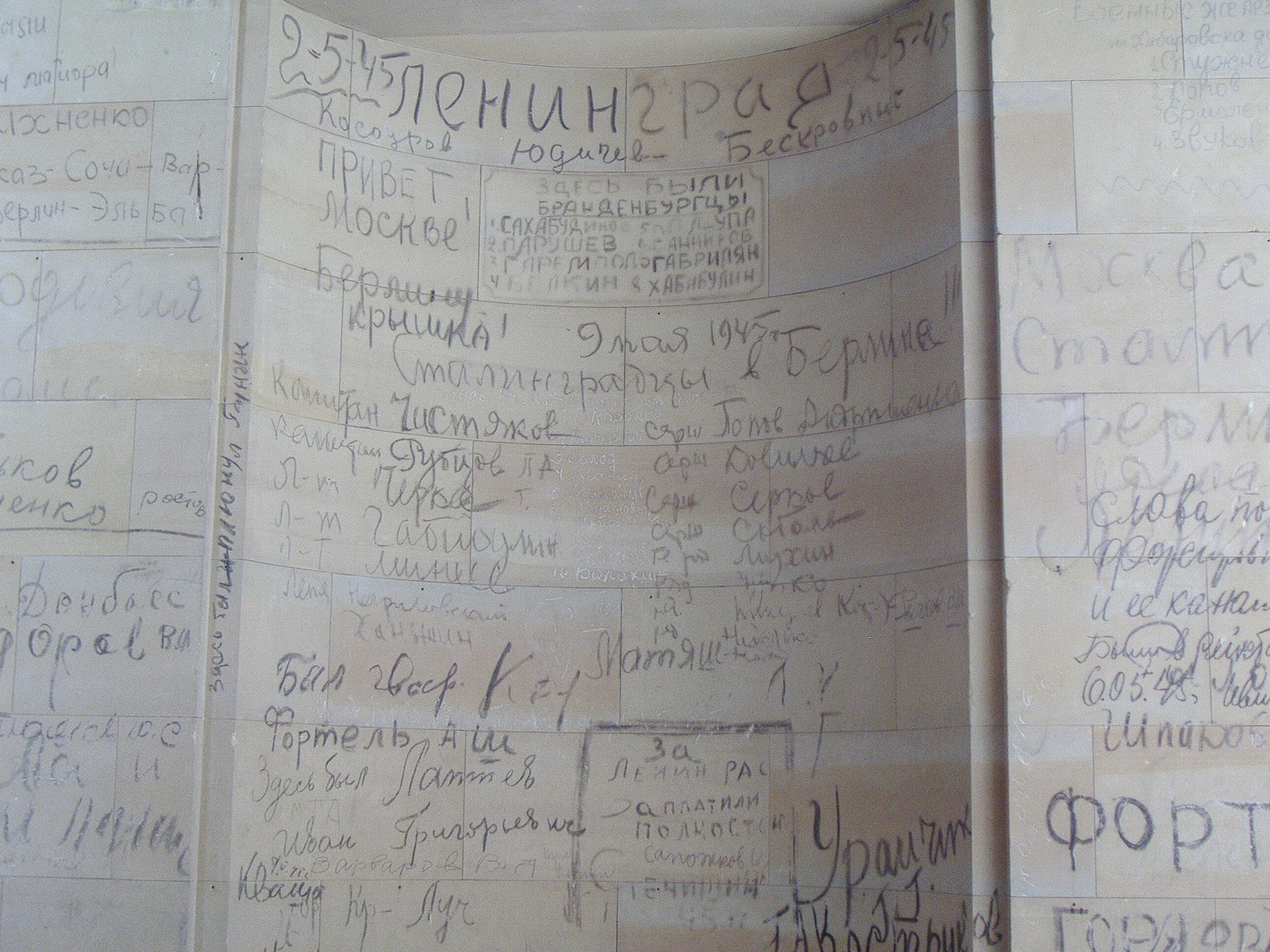 Reichstag: Russian graffiti (signs of soviet soldiers in the honour of victory in great patriotic war, may 1945)